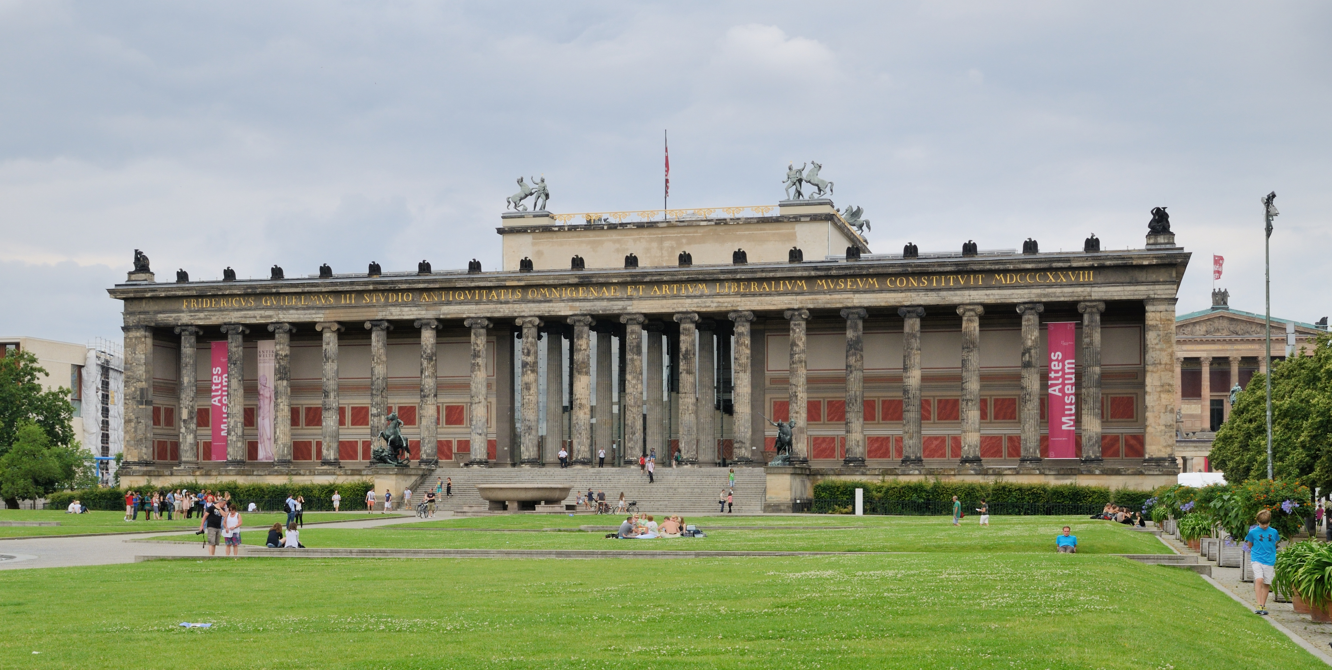 Berlin: Altes Museum (Old Museum)